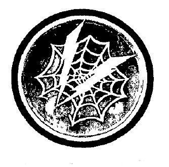 Emblem of the 427th Night Figher Squadron, World War II